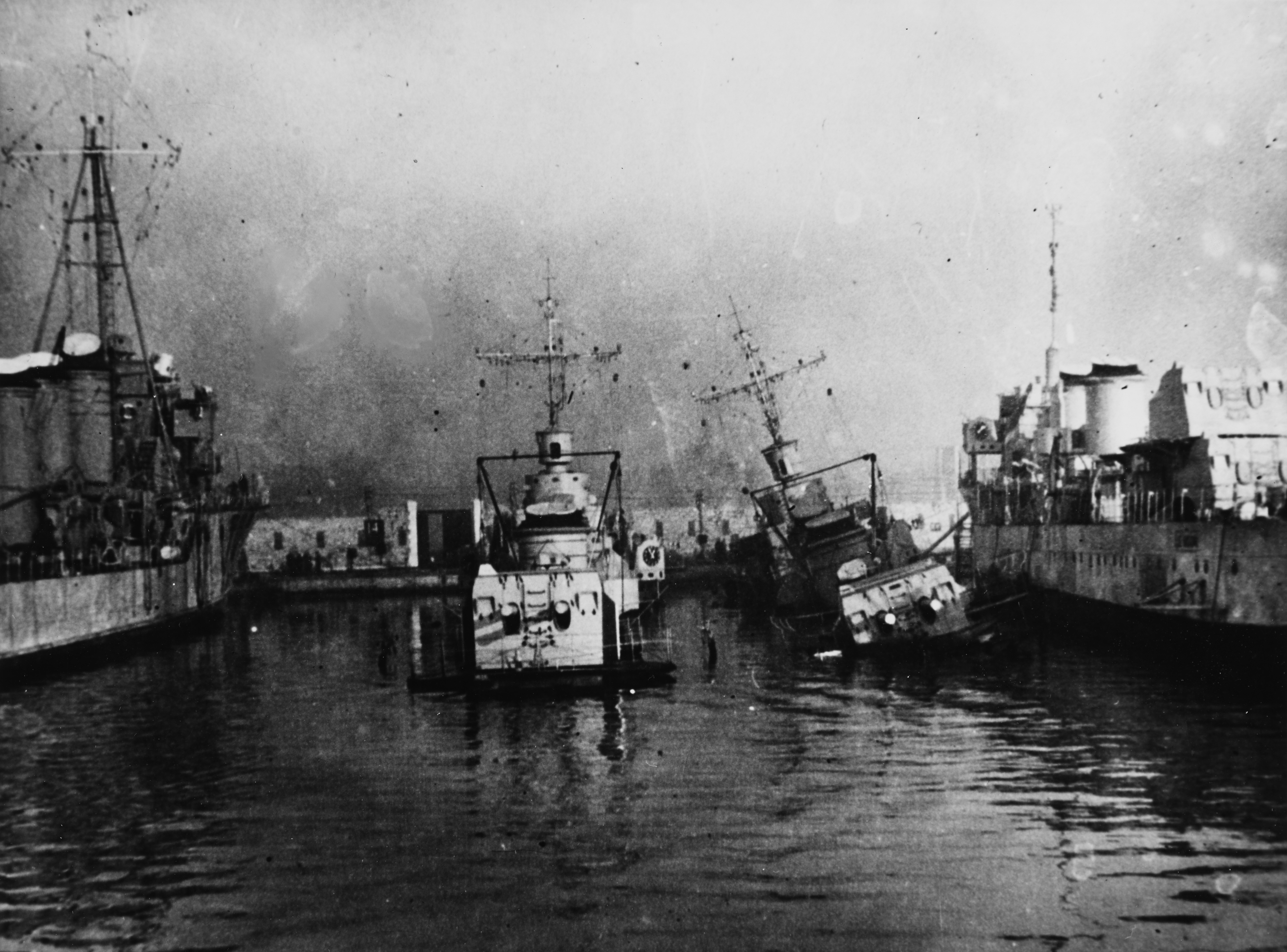 Scuttling of the French Fleet at Toulon on 27 November 1942: Destroyers Foudroyant (center, left) and Le Hardi (center, right, listing to port) sunk off the southwestern waterfront of Parc a Charbon island, soon after scuttling. Partially visible at far left and far right are the apparently undamaged destroyers Trombe (left) and Bison (right). The latter is incomplete, as shown by the absence of gun barrels in her after 130 mm twin gun mounts. Foudroyant and Bison were originally named Fleuret and Le Flibustier, respectively.